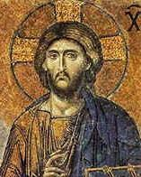 Icon of Jesus Christ from the Cathedral of Hagia Sophia in Constantinople (now Istanbul). This image is part of a deesis showing Jesus, the Virgin Mary, and Saint John the Baptist. It is at least 600 years old.